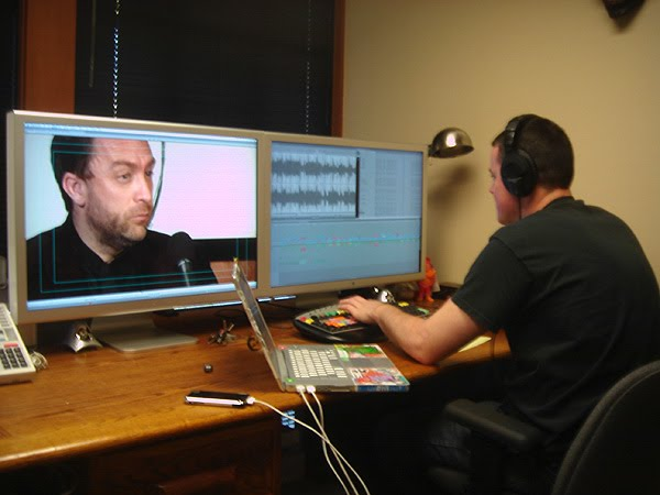 Author loves CC-By-SA 3.0 work